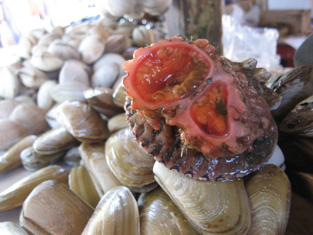 A piure (Pyura chilensis) at Maitencillo Chile, in the Valparaíso Region.